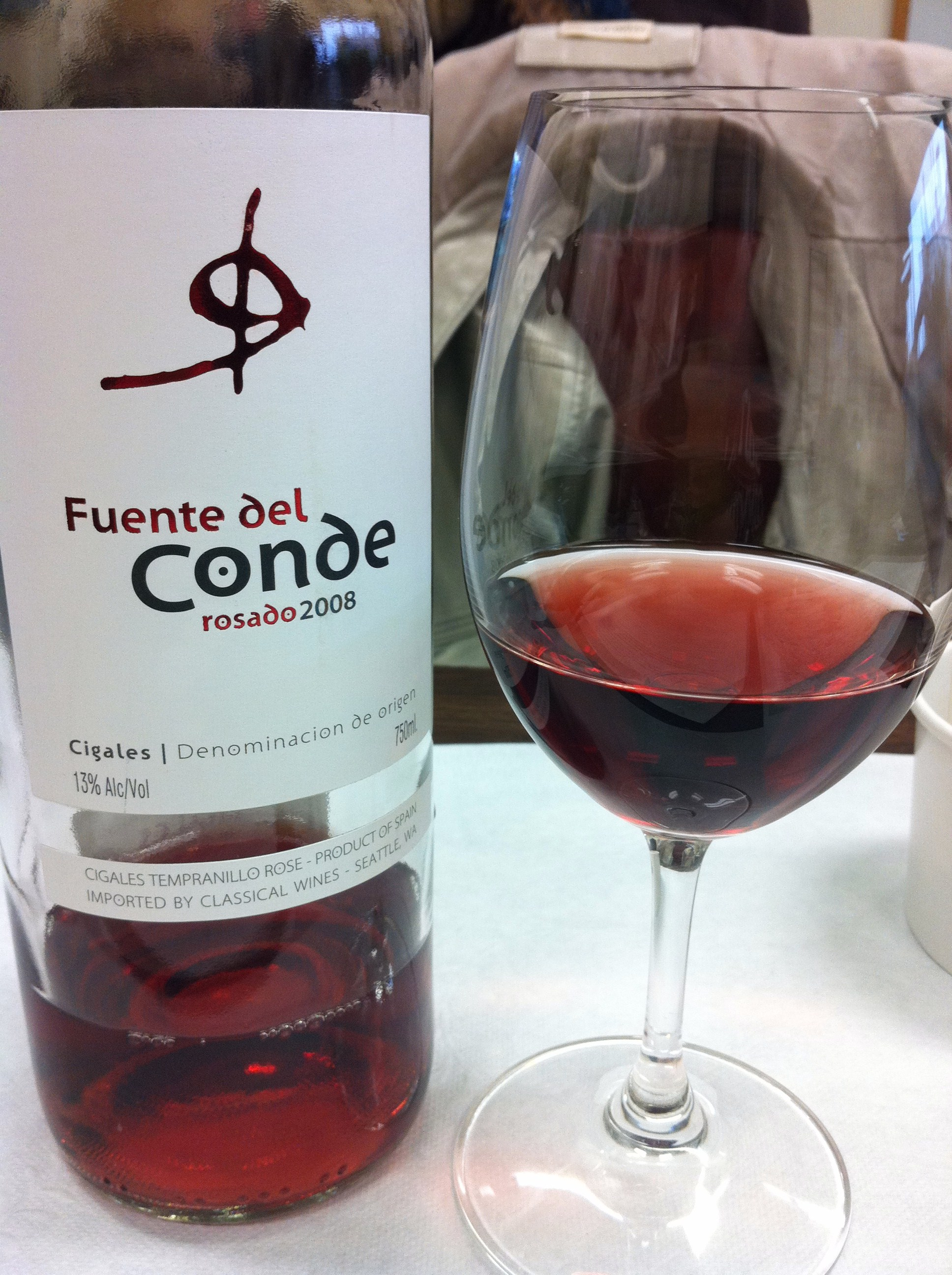 Spanish rose wine from the Cigales wine region.